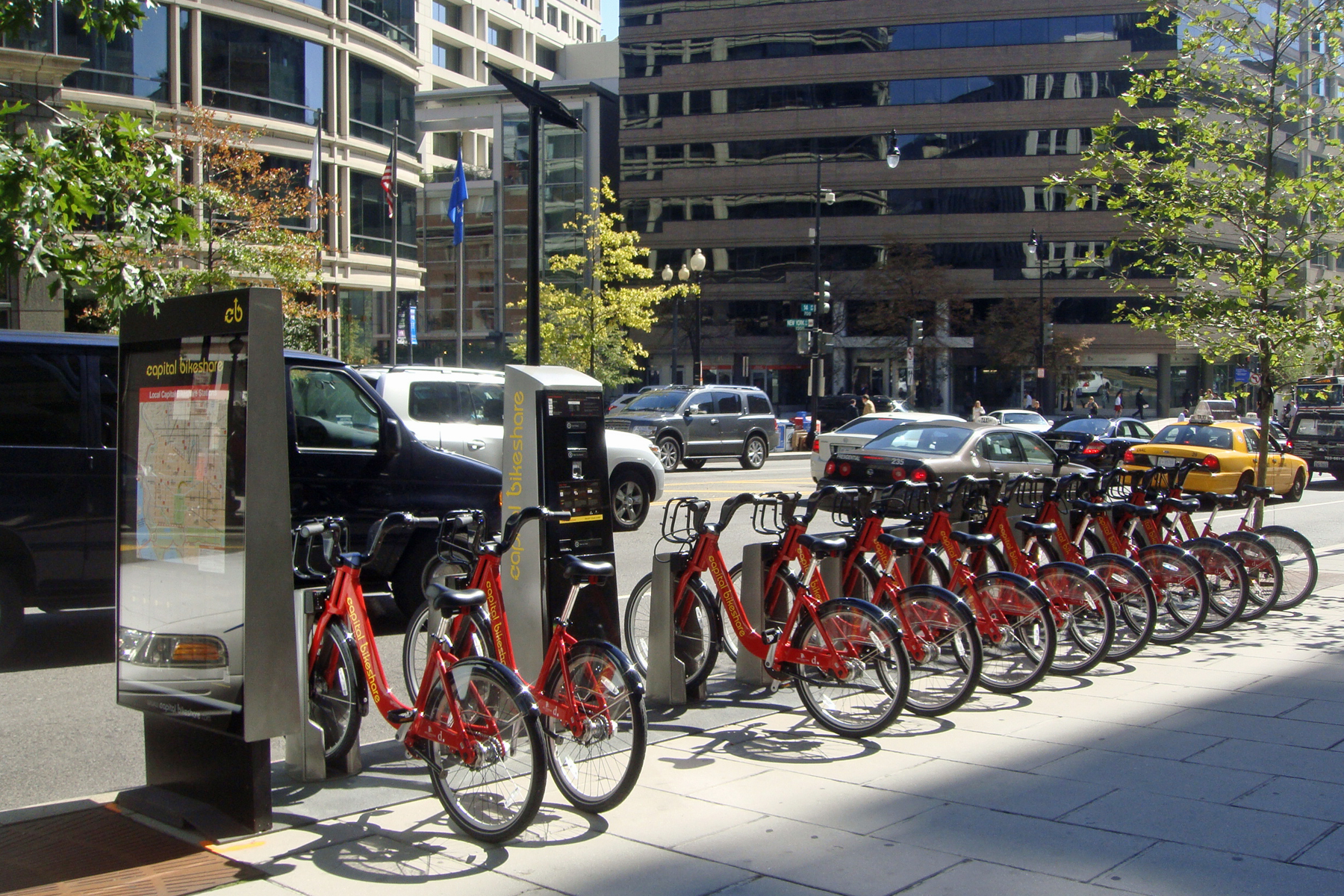 Capital Bikeshare rental station near McPherson Square Metro (WMATA) station, downtown Washington, D.C.